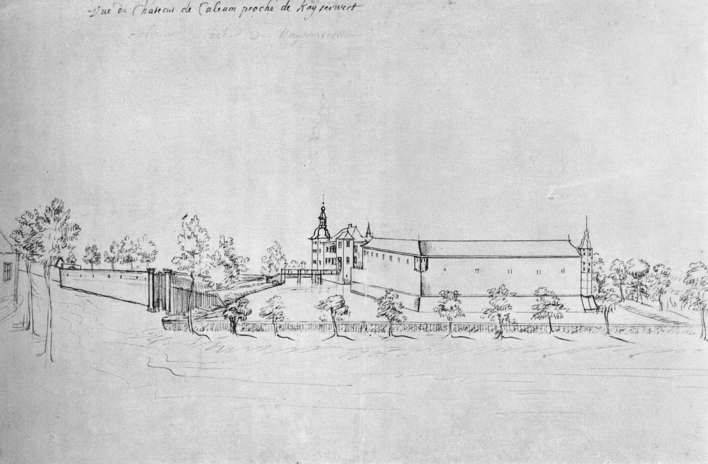 Schloss Kalkum in Düsseldorf-Kalkum, old litography